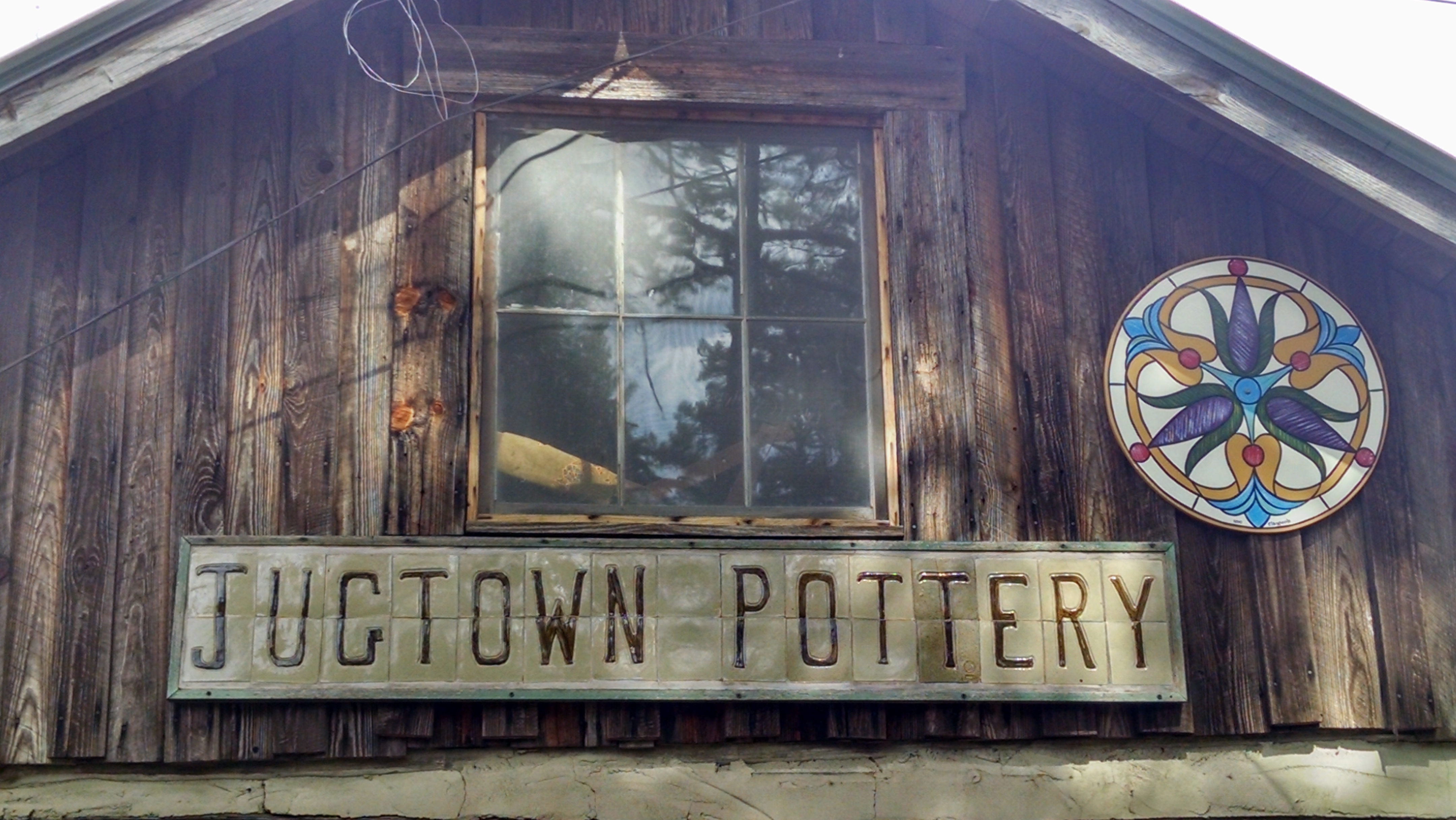 Jugtown Pottery shop and museum, Jugtown, North Carolina